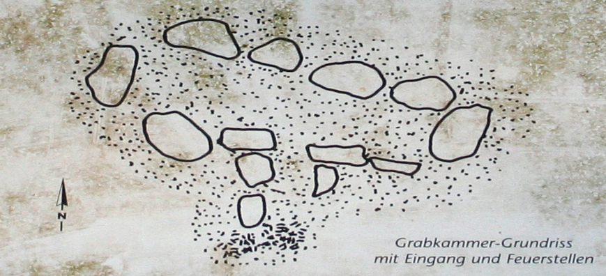 Megalithic tomb Steden 2